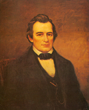 Portrait of John Winston Jones of Virginia, Speaker of the U.S. House of Representatives